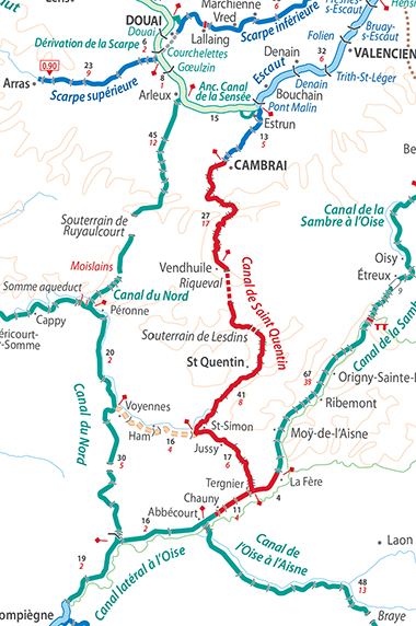 Extract from the European Waterways Map and Directory (Transmanche) highlighting the Canal de Saint-Quentin and its connections